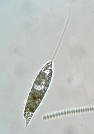 Peranema sp. (from pond in Wakefield, Quebec).